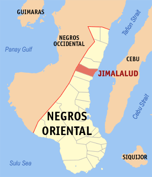 Map of Negros Oriental showing the location of Jimalalud